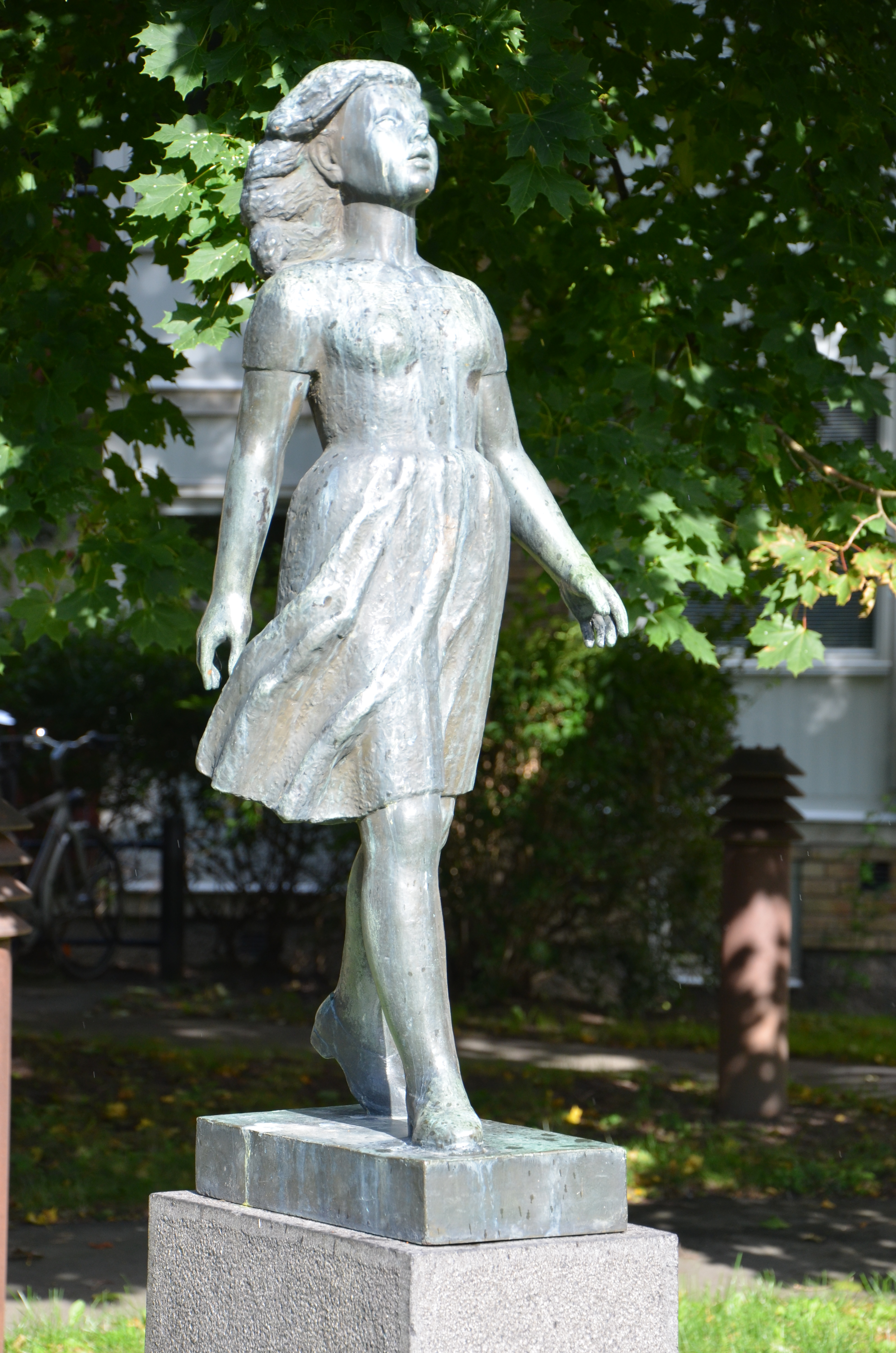 Emil Näsvalls Maj, brons, August Wahlströms väg, Danderyd